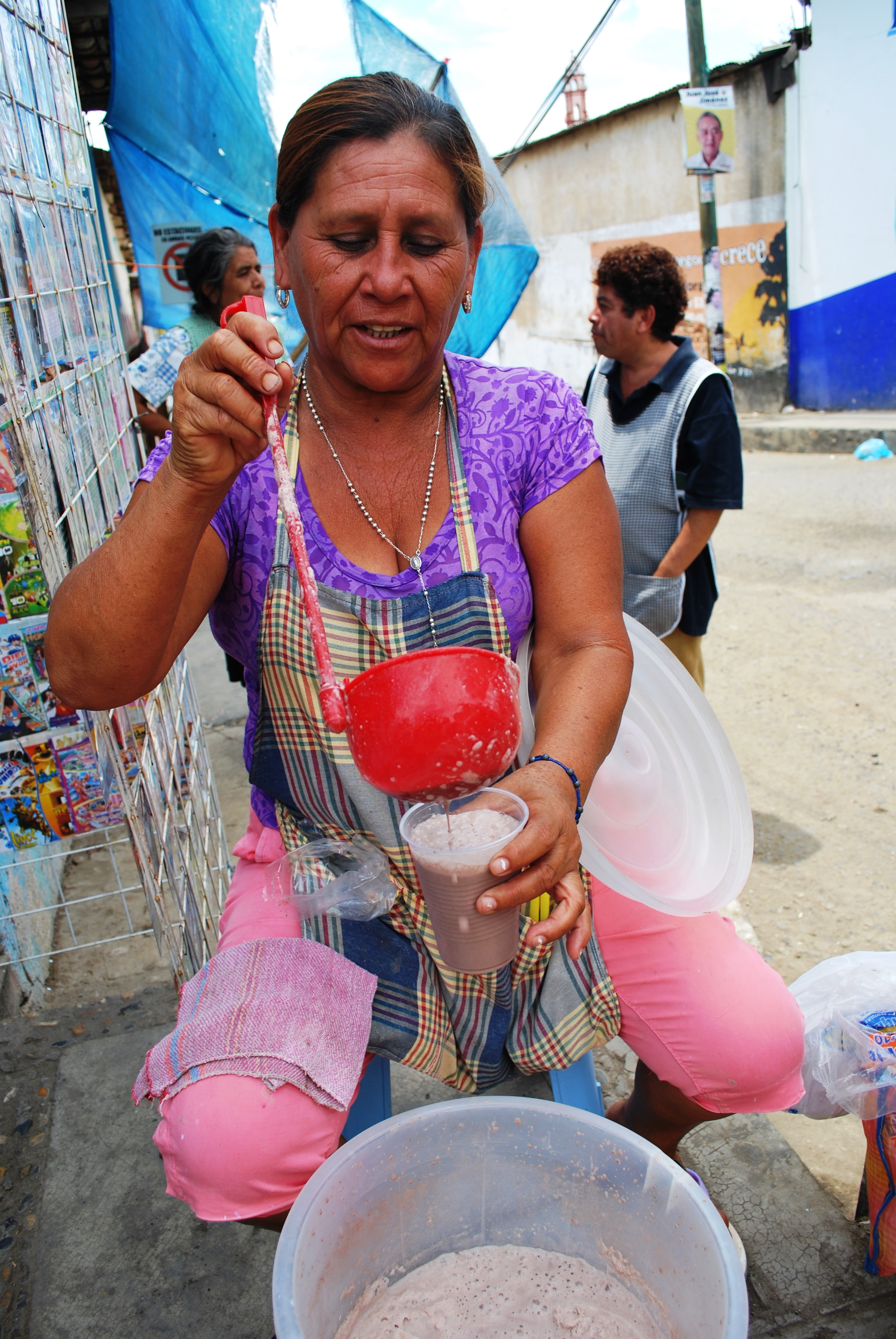 Woman selling a drink called chilate (like pozol) in Ometepec, Guerrero